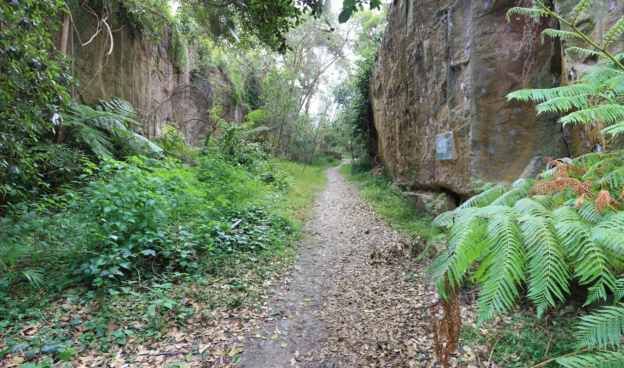 A from tram cutting in the suburb of Balmoral, New South Wales, now walking track